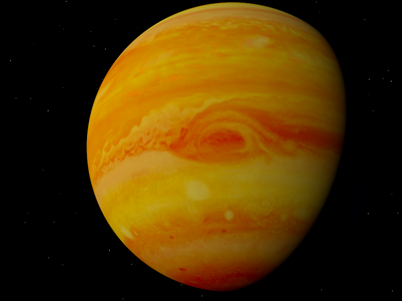 Rendering of 55 Cancri b